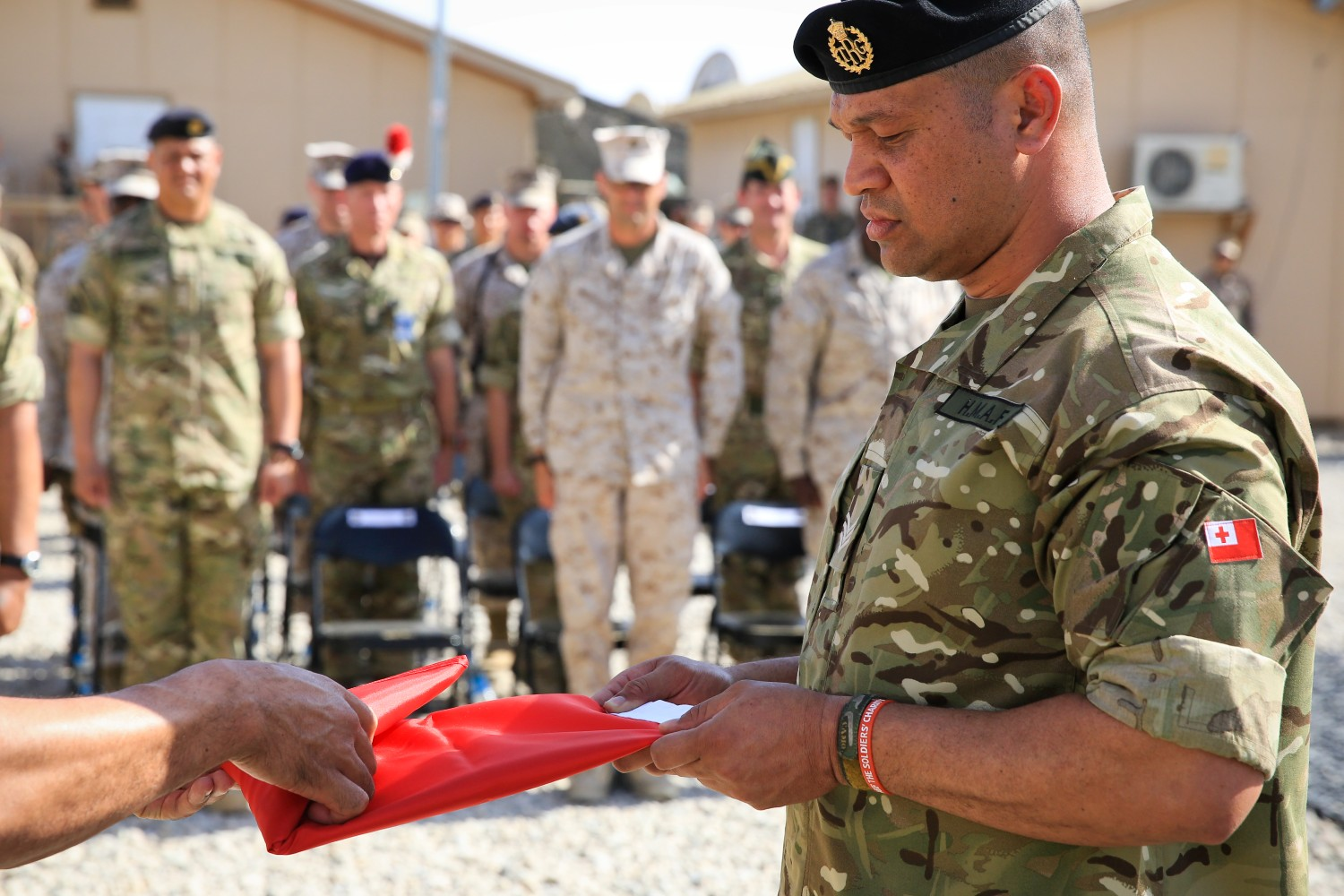 Camp Leatherneck, Helmand, Afghanistan - A Royal Tongan Marines assigned to Tranche 7, the seventh and final rotational contingent of Royal Tongan Marines to Afghanistan, holds his nation's flag while it's folded in a ceremony aboard Camp Leatherneck, Helmand province, Afghanistan, April 28, 2014. The lowering of the flag symbolizes the end of the Kingdom of Tonga's participation in Operation Enduring Freedom and return to their homeland.